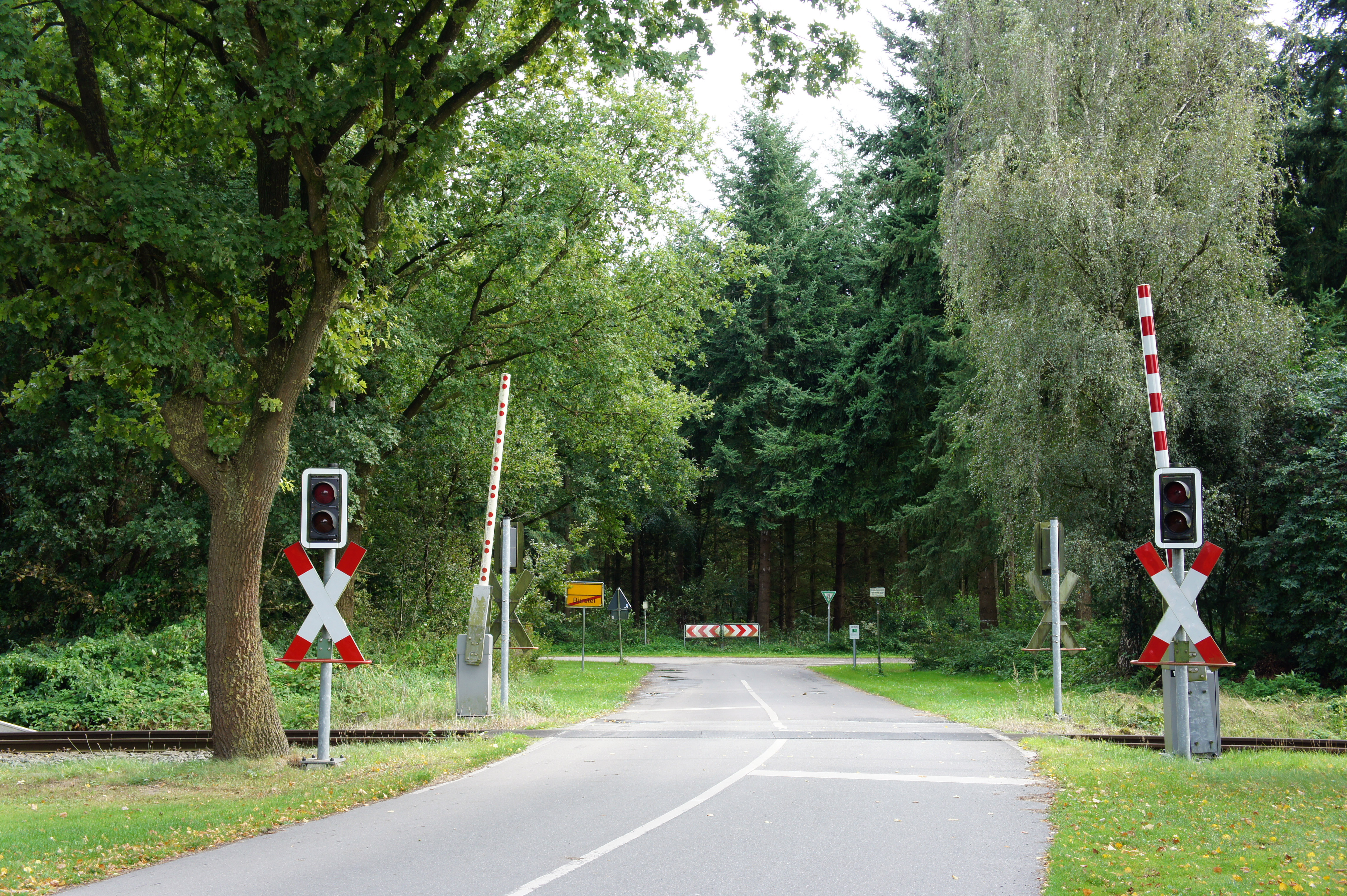 Buersteler Fuhrenkamp near Ganderkesee